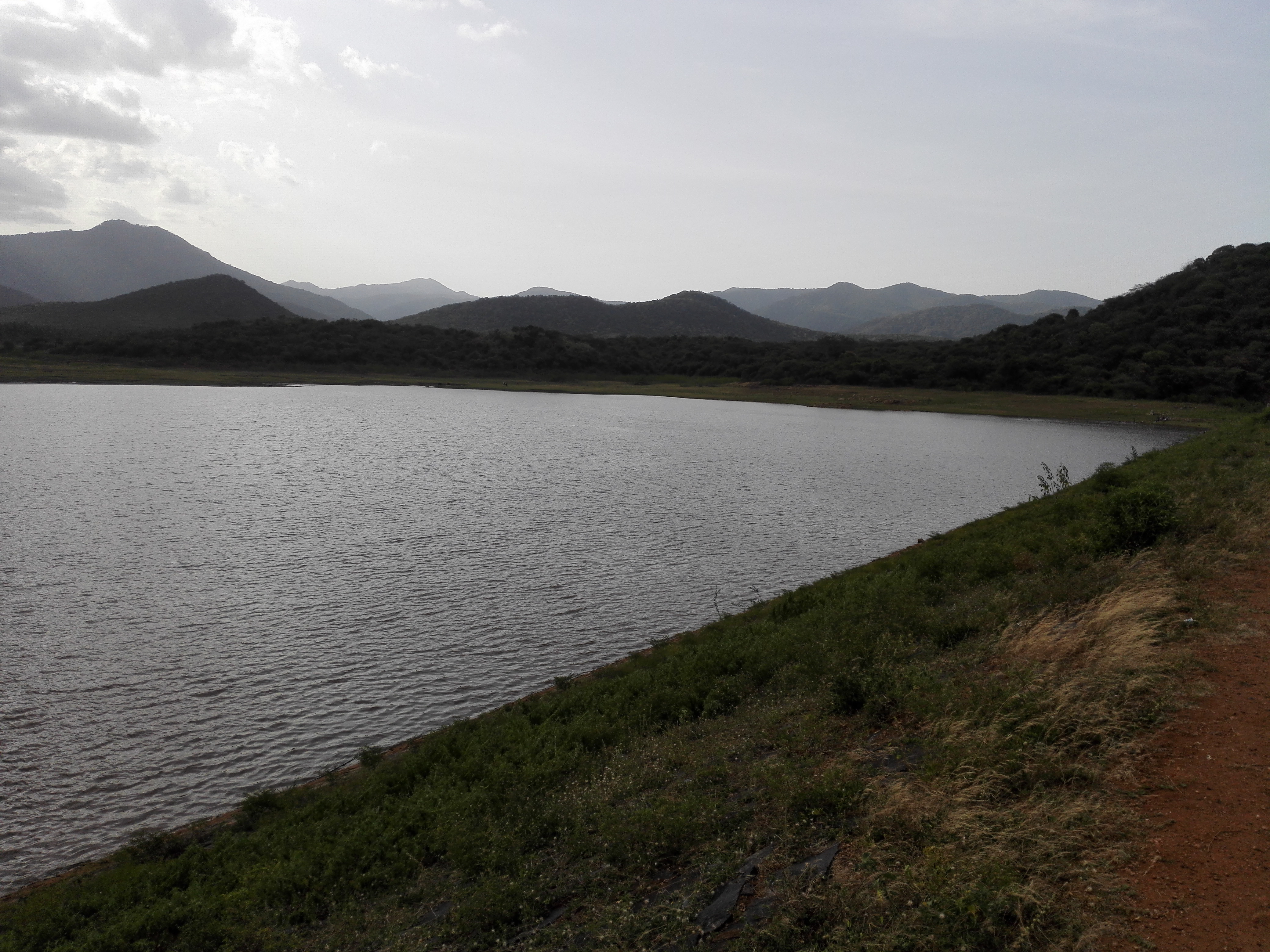 Sathiyar Reservoir near Palamedu, Madurai District, Tamil Nadu, India